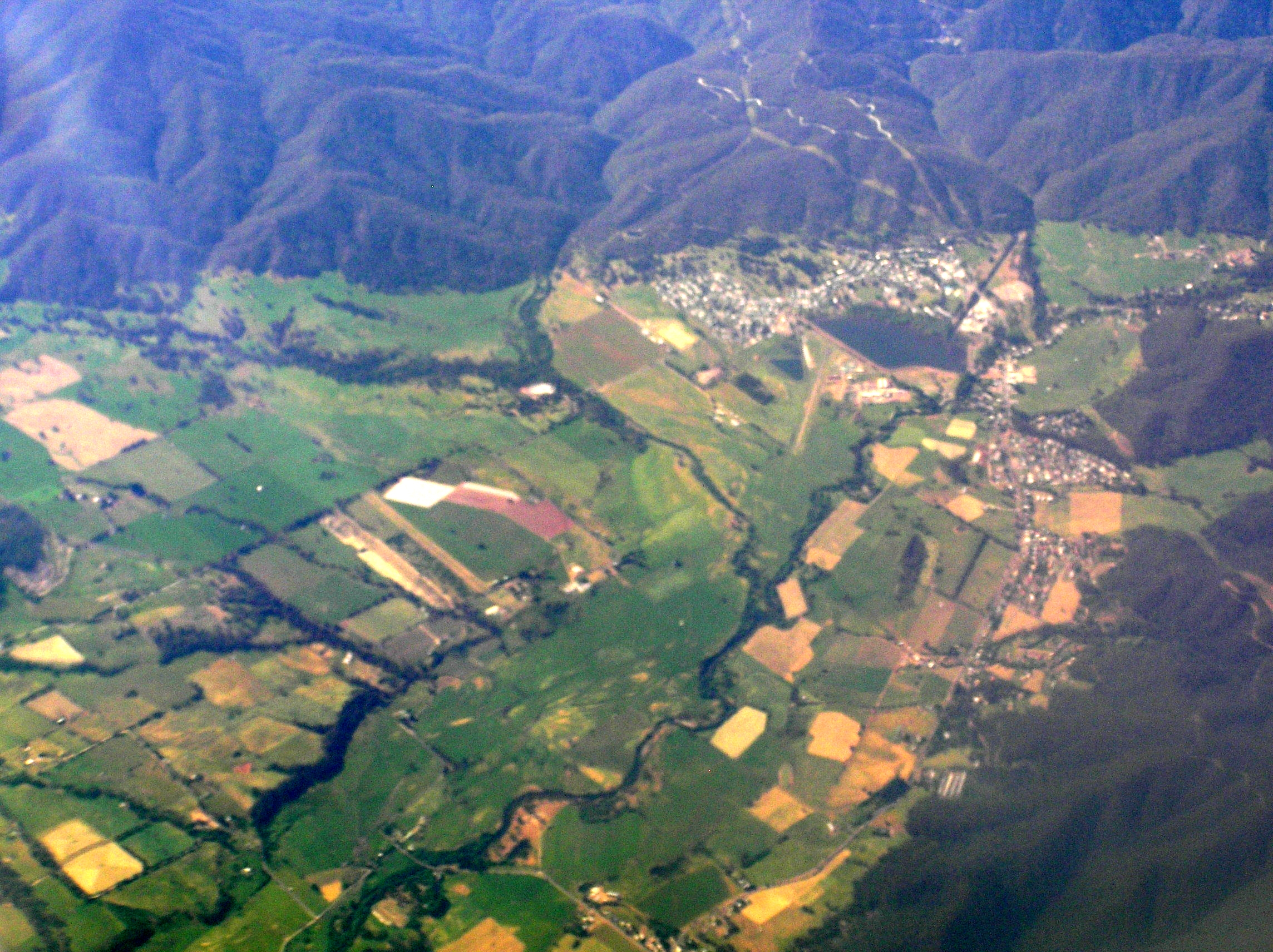 Aerial photo of Mount Beauty and Toowong South Victoria from north west